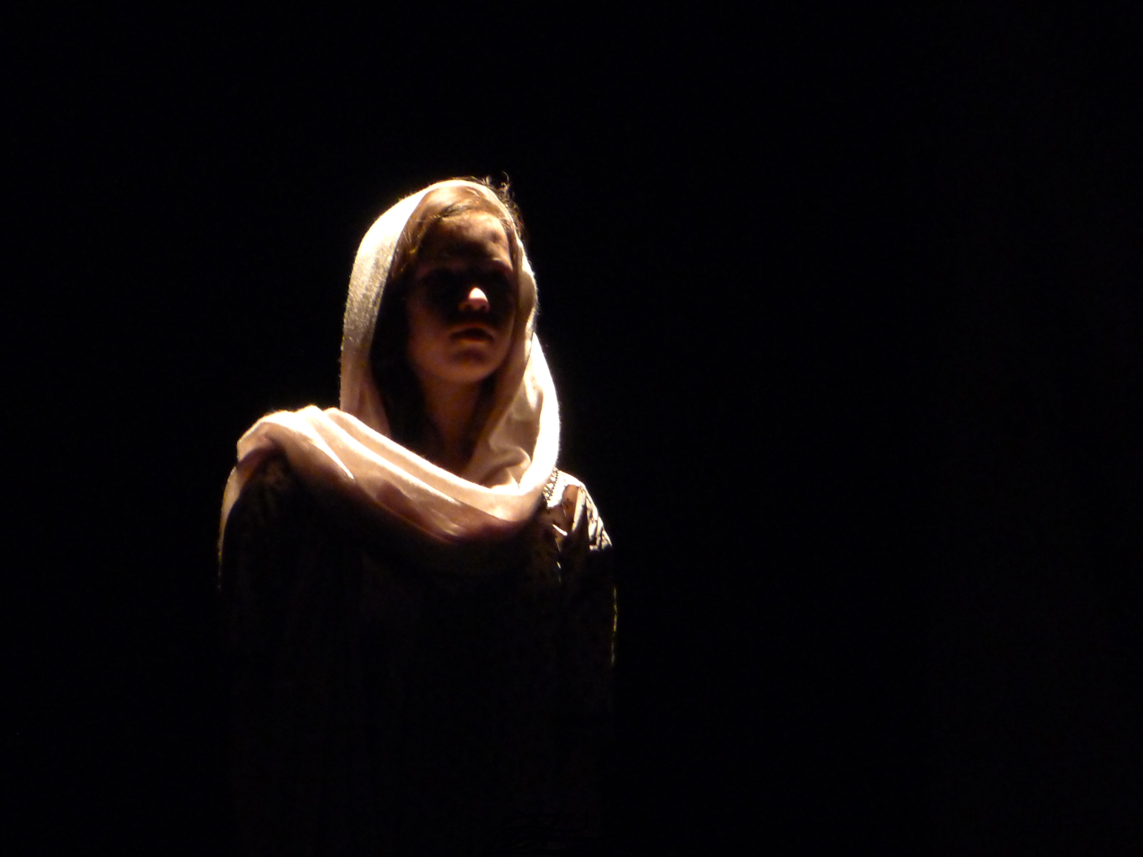 Scorched (Wajdi Mouawad's play) presented at the Lise-Guèvremont theatre in Montreal.